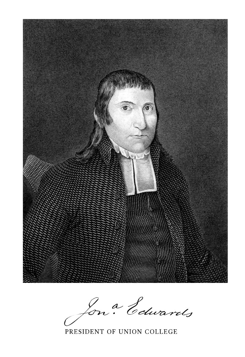 Engraving of the portrait of Jonathan Edwards, Jr.